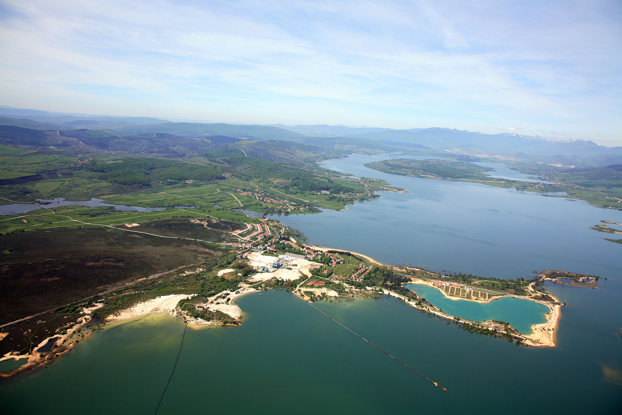 Aerial view of Arija and the Ebro dam